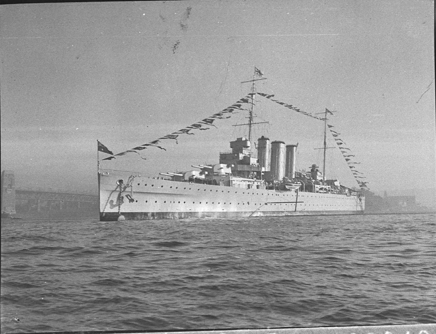 County-class cruiser HMAS Canberra arriving in Sydney, New South Wales, 6 August 1936, carrying the new NSW governor Admiral Sir Murray and Lady Anderson